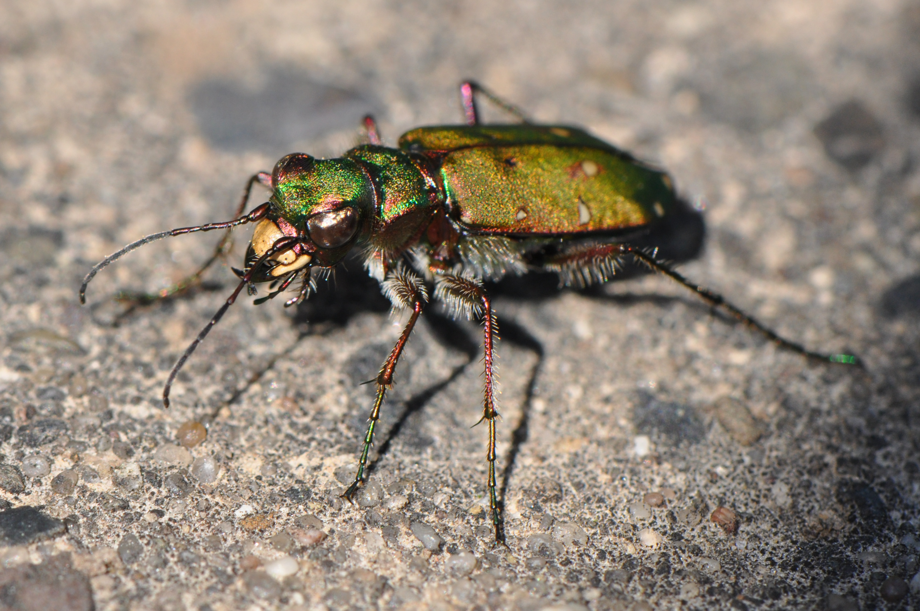 Cicindela campestris, Marburg, Hesse, Germany